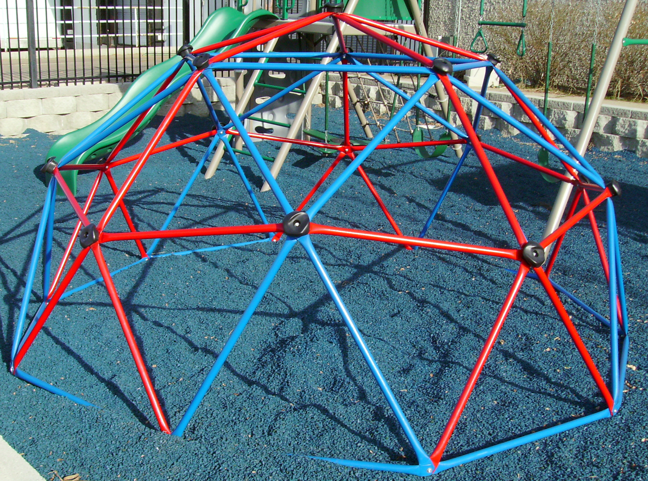 Dome climber, playground equipment, Lifetime Products, Backyards Inc